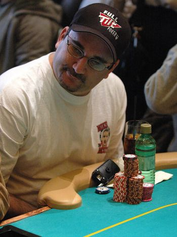 Mike "The Mouth" Matusow in 2006 World Poker Tour 5 Diamond Bellagio tournament